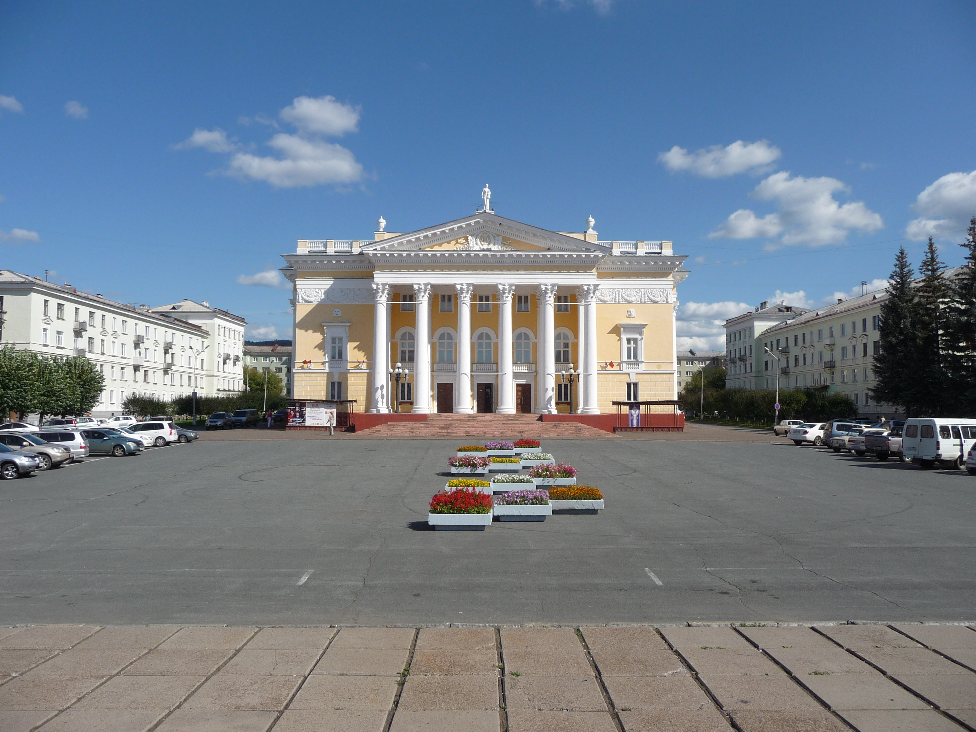 Lenin Square and the Palace of Culture in Zheleznogorsk, Krasnoyarsk Krai, Russia